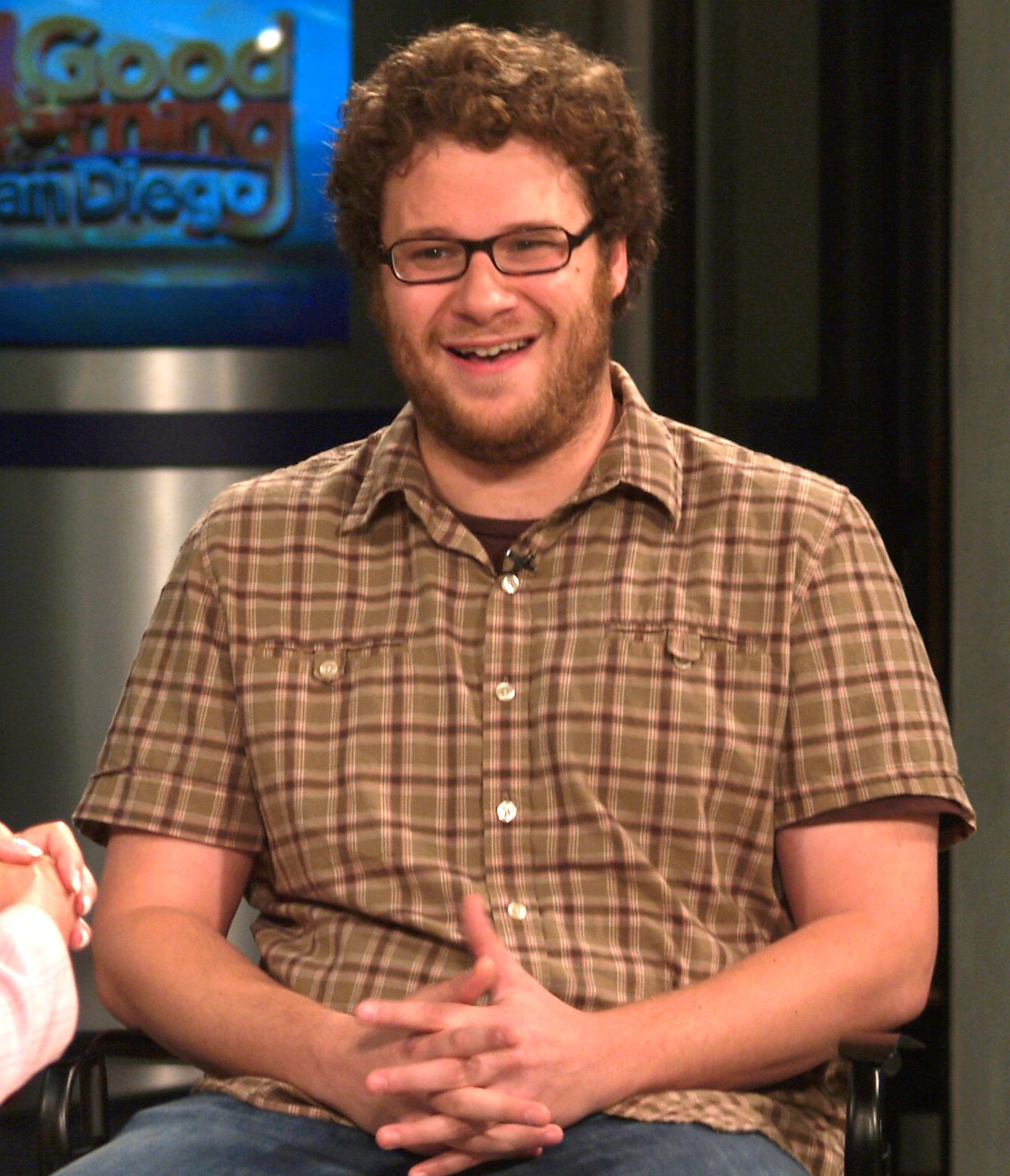 Seth Rogen taken by Phil Konstantin on July 27, 2007 Please acknowledge "Phil Konstantin" as the creator of this photograph.